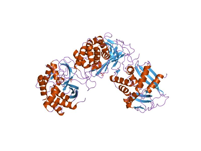 Cartoon representation of the molecular structure of protein registered with 2c1w code.